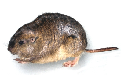 Female Ctenomys haigi (Tuco-tuco) (original description: photographer: Annaliese Beery, subject: female Ctenomys haigi, photograph taken: December 2005 Cc-by-sa-2.5 ).